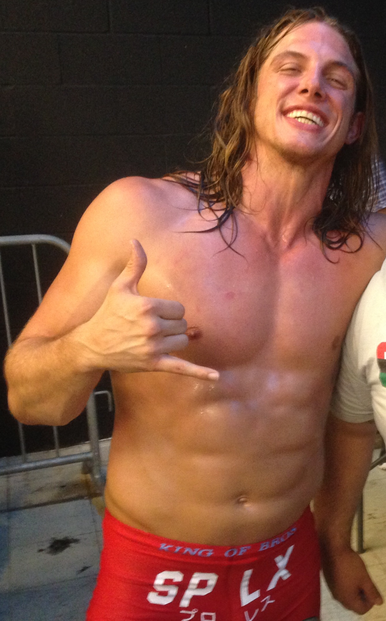 Pro wrestling Matt Riddle August 11th 2017 in Joppa, MD, USA